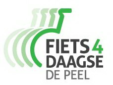 Fiets4Daagse De Peel (Fietsvierdaagse De Peel) is het op een na grootste fietsevenement van Nederland. Het bestaat uit vier dagen recreatief fietsen met startplaatsen in Deurne, Meijel, Stiphout en Weert en vindt vooral plaats in het buitengebied van de vier startplaatsen. Het evenement is verdeeld in vier verschillende trajecten, één voor iedere dag van het evenement en wordt elk jaar gehouden in de maand juli.